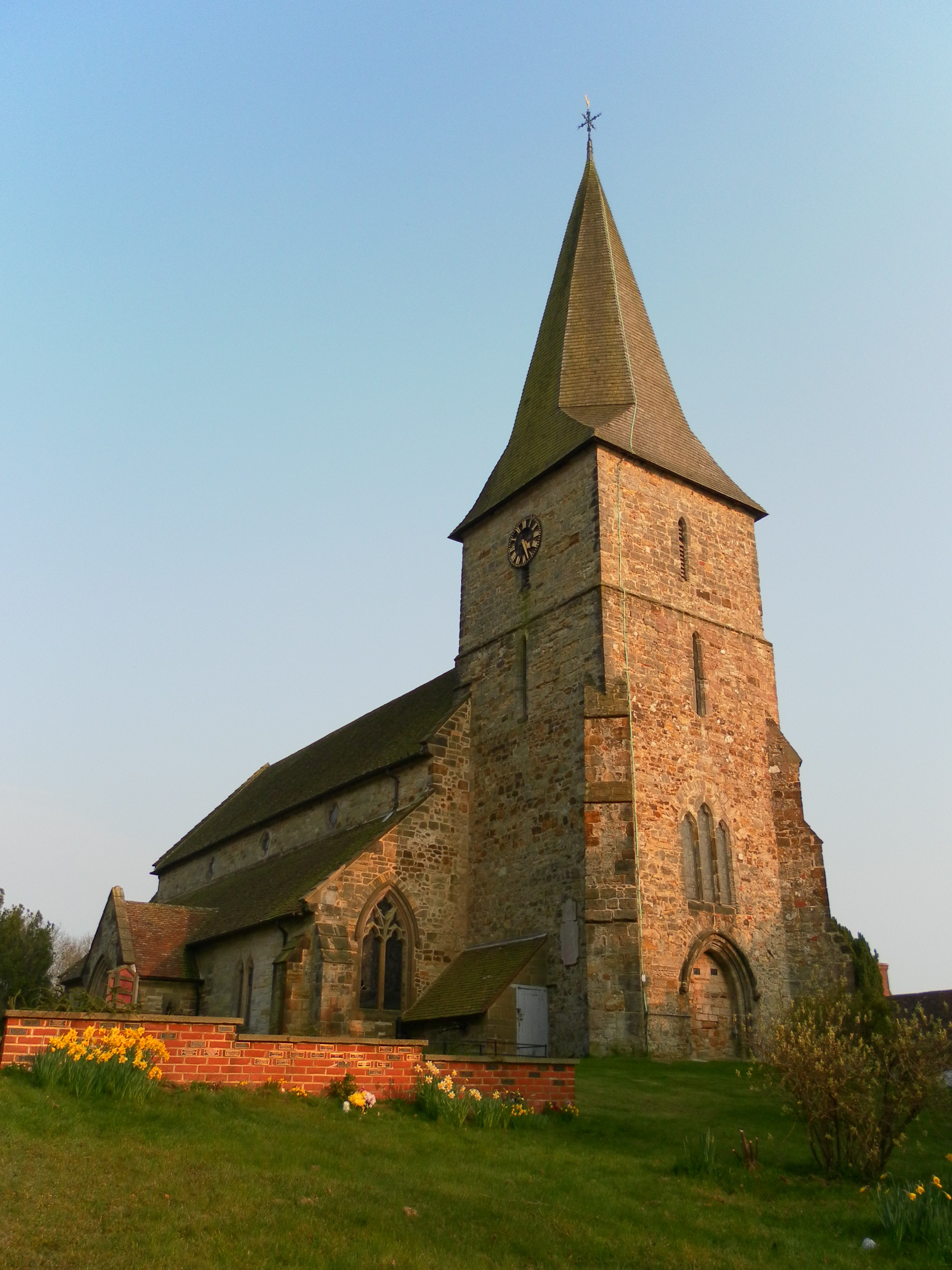 All Saints Church, Old Heathfield, Wealden District, East Sussex, England. The parish church of Old Heathfield, now an outlying part of the market town of Heathfield. Listed at Grade II* by English Heritage (IoE Code 295216)